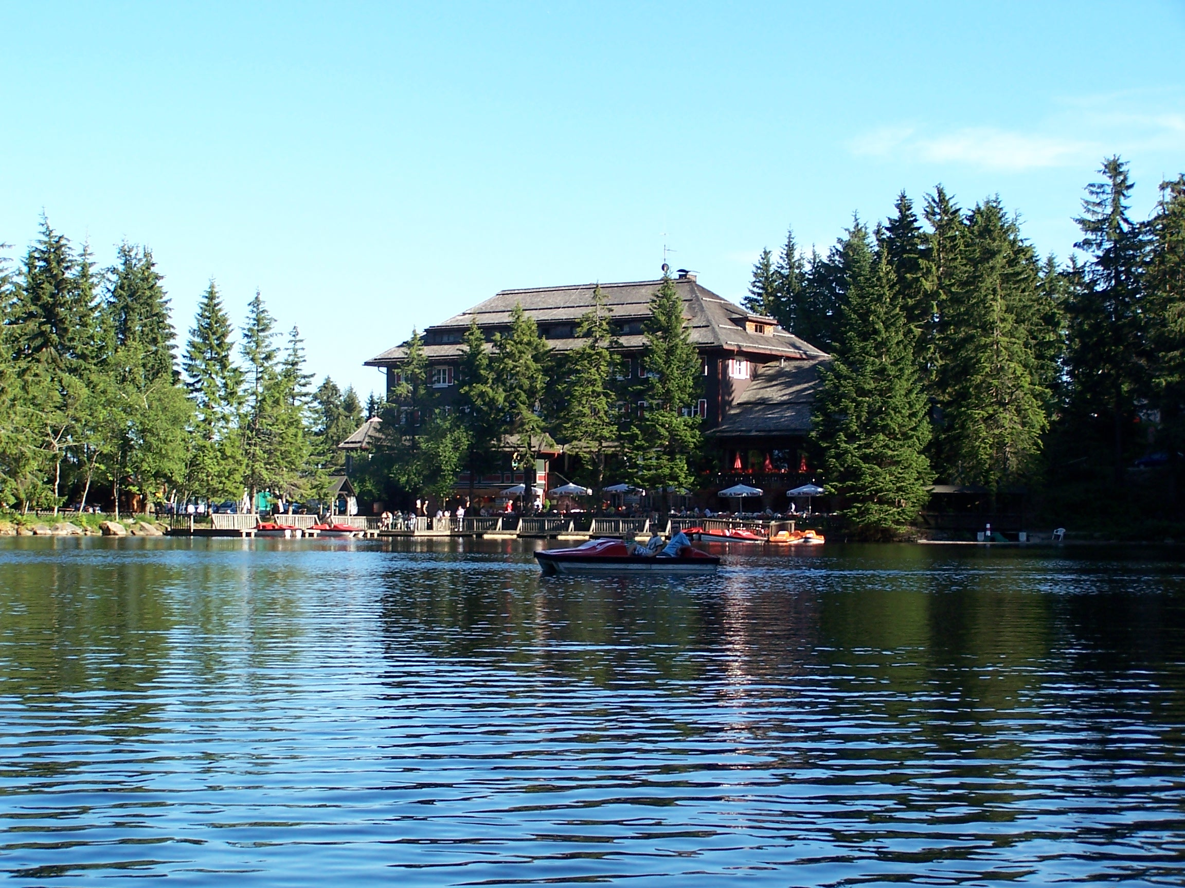 The Mummelsee near Seebach in the Black Forest